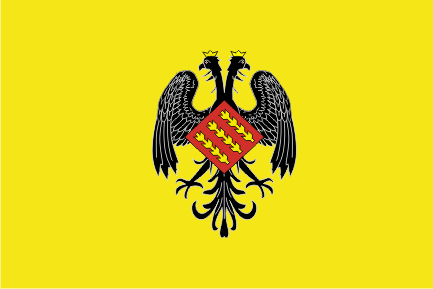 Flag of Sort